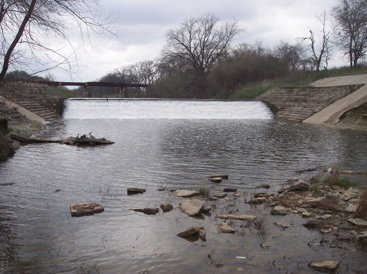 A dam at Bosque River. Taken at Clifton, Texas, USA. Note: The dam's steplike design makes it look like a fish ladder - please verify if it is one.